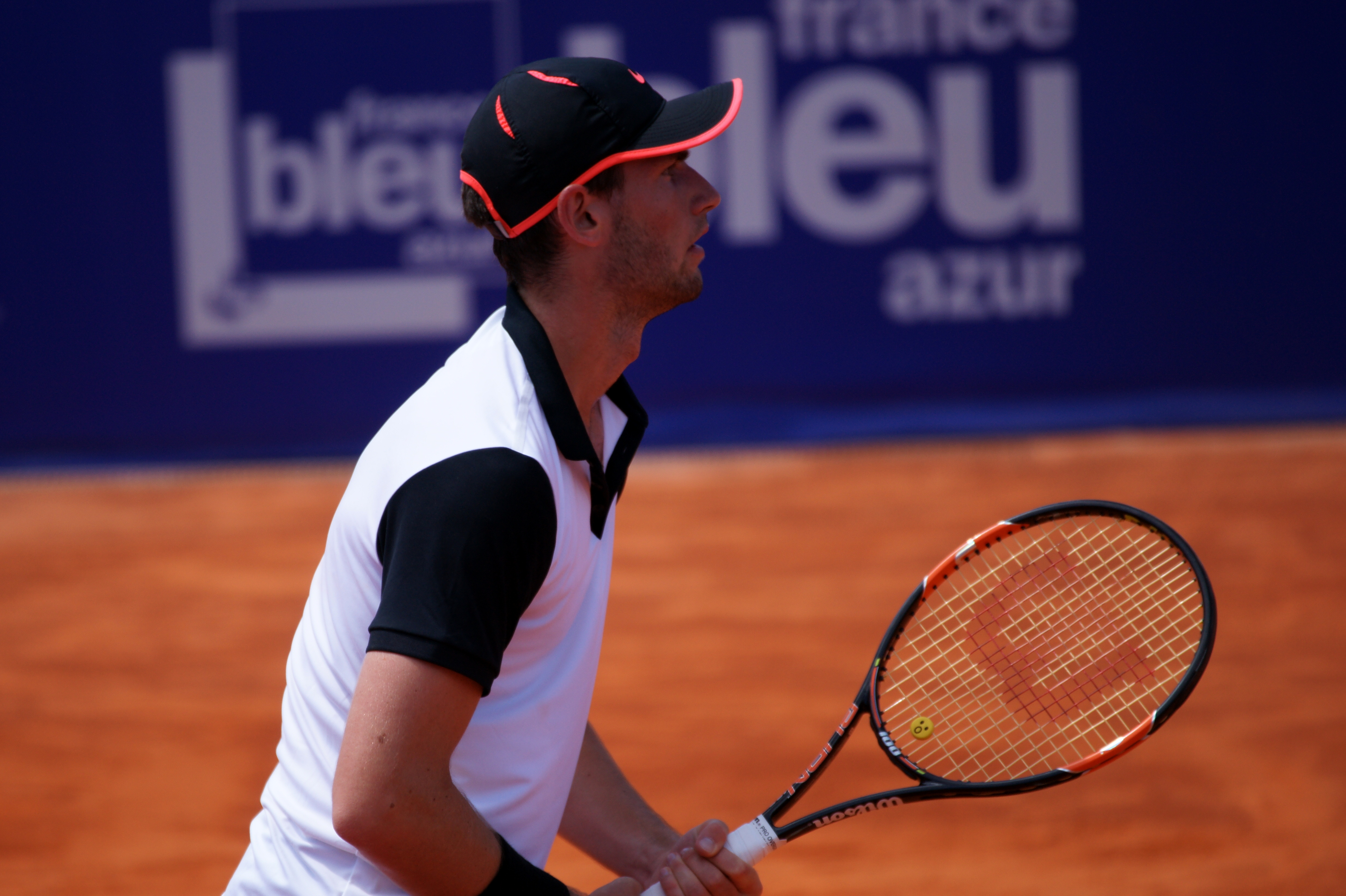 Quentin Halys, 2015 Nice.JPG